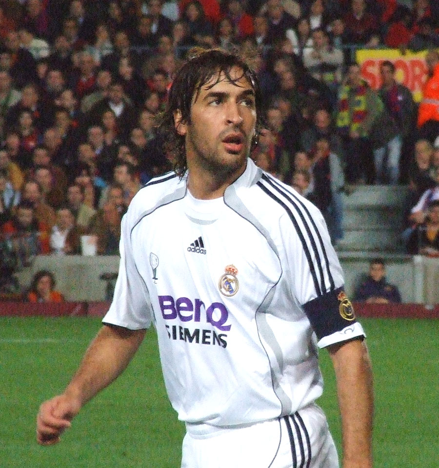 Raúl González, Real Madrid's player, during the match FC Barcelona-Real Madrid.